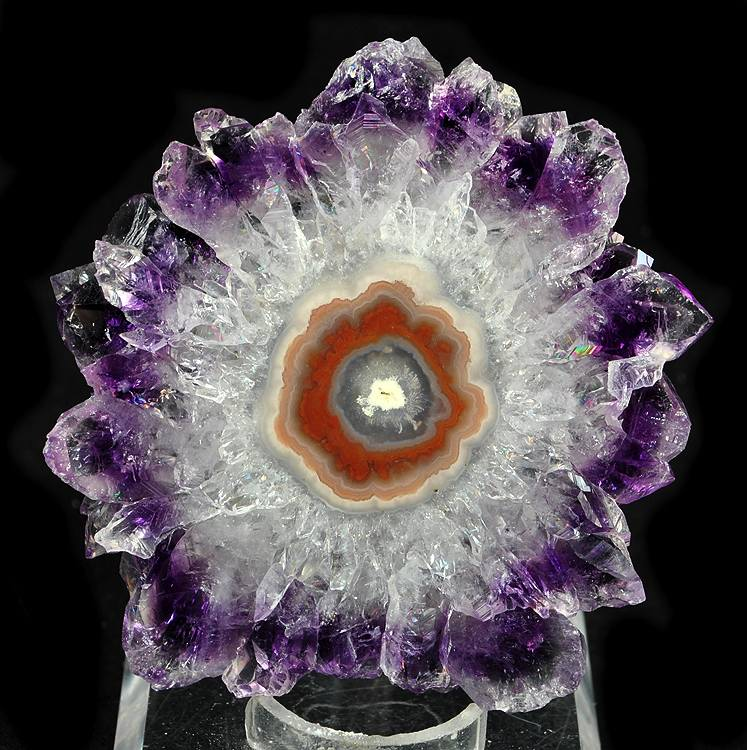 Quartz (Var.: Amethyst) Locality: Artigas, Artigas Department, Uruguay (Locality at ) Size: 7.1 x 6.6 x 0.5 cm. A gorgeous, sliced and polished, flower-like, amethyst stalactite from Uruguay. The color banding with the iron oxides and purple amethyst is spectacular.